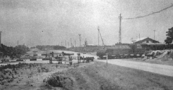 A Sentinel locotomotive of Ferrocarril Midland de Buenos Aires, while crossing a level crossing on Camino de Cintura, near to Isidro Casanova.